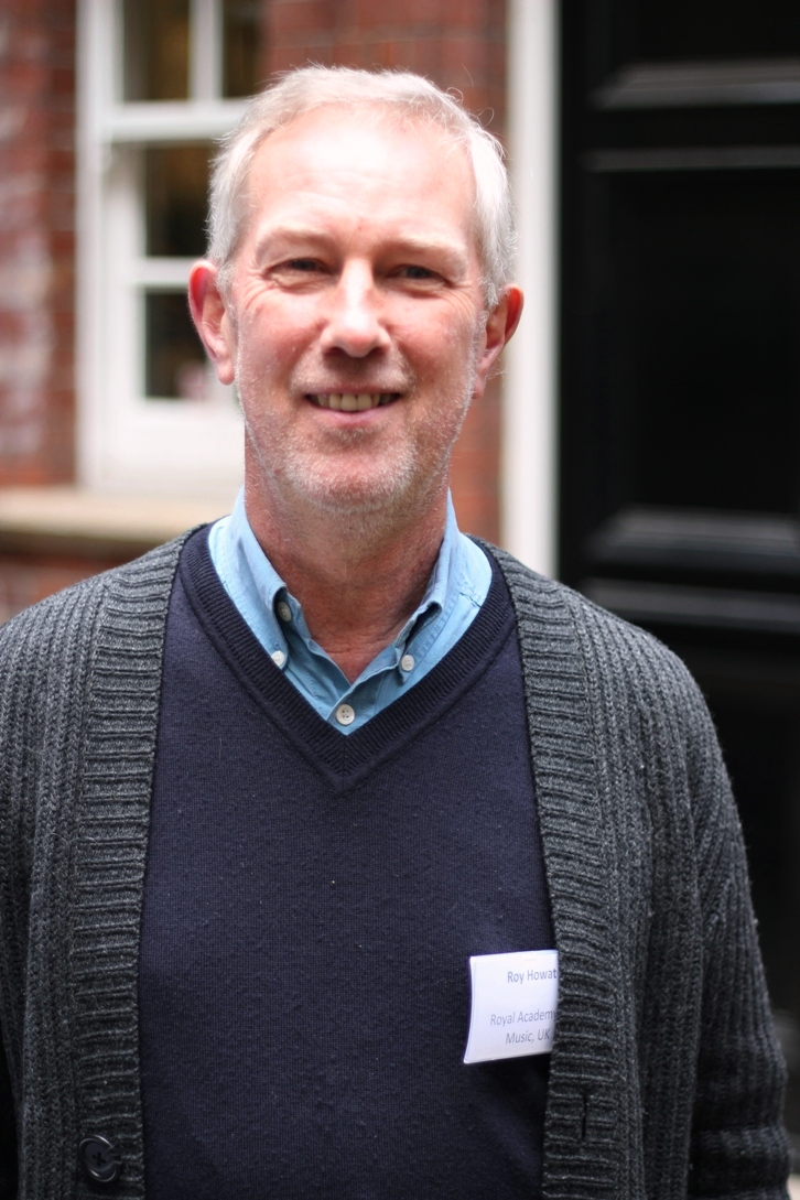 Roy Howat, photographed outside Barnard's Inn Hall, at Gresham College, London. This was taken during the free public conference, 'Debussy: Text and Ideas'. The conference is available to be viewed on the Gresham College website